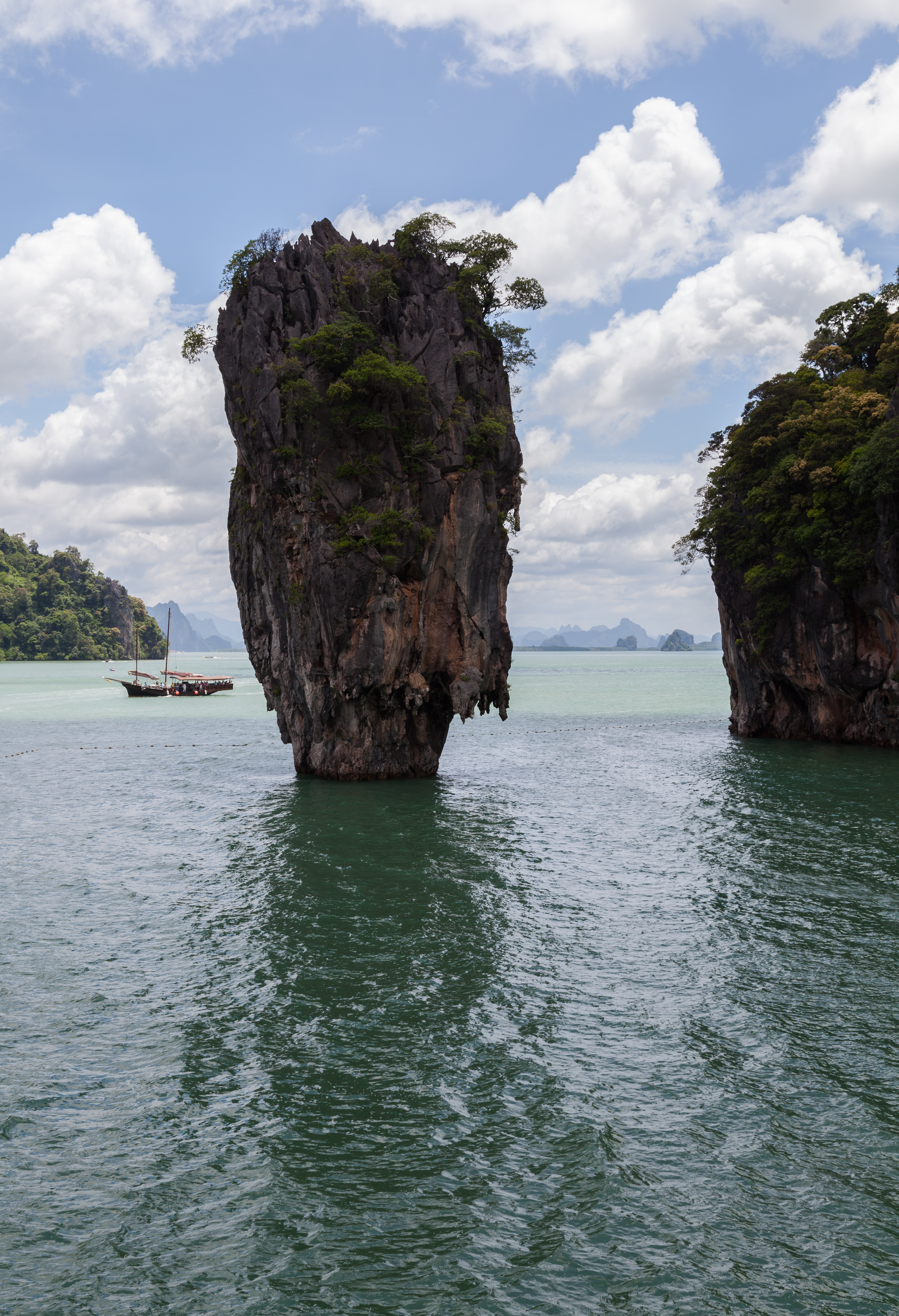 Tapu Island, Phuket, Thailand